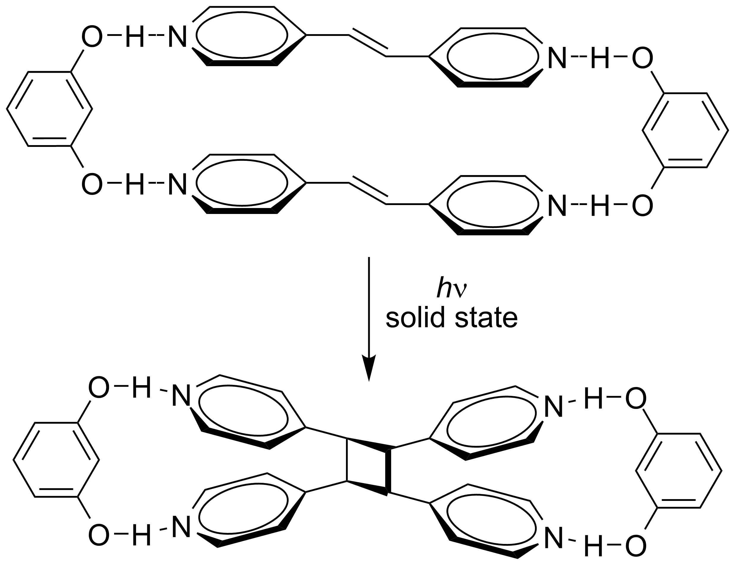 Skeletal structures of the photochemical [2+2] cycloaddition of trans-1,2-bis(4-pyridyl)ethylene controlled by a resorcinol template in the solid state. See L. R. MacGillivray, J. L. Reid and J. A. Ripmeester (2000). "Supramolecular Control of Reactivity in the Solid State Using Linear Molecular Templates". J. Am. Chem. Soc. 122 (32): 7817–7818.